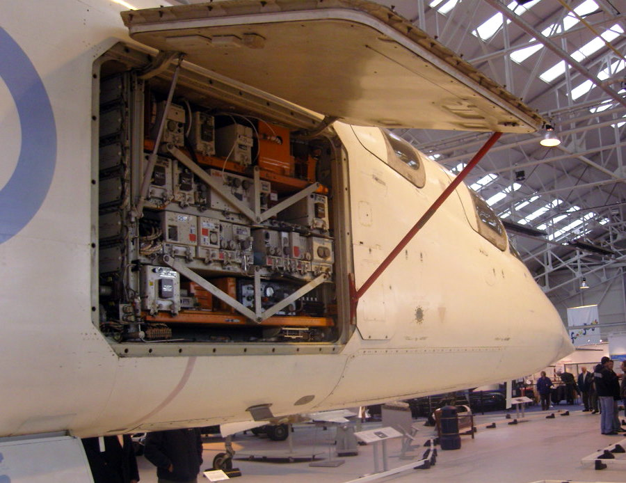 The second prototype TSR-2 (Serial No. XR220) on display at the Royal air Force Museum, Cosford. This photograph shows the open avionics bay. The TSR-2 was designed as a low altitude, high speed tactical strike and reconnaisance aircraft to penetrate Soviet defences by flying under their radar cover, requiring advanced terrain following avionics. The project was cancelled by the British Government on 6th April 1965, the same day that XR220 was due to make its first flight and as a result only the first prototype, XR219, ever flew. A third airframe had also been completed XR222 now on display at the Imperial War Museum, Duxford. Wikipedia article on theTSR-2 Photo ref; SNC10156